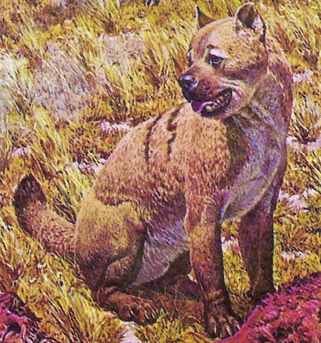 Cropped image of taxon in file name